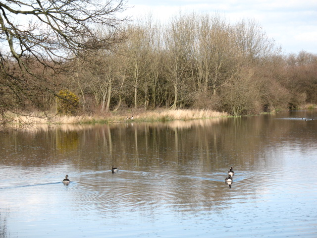 Black Heath Pond There are several ponds in the Ripon Parks area, of which Black Heath Pond and Queen Mary's Dubb are the largest. They may be kettle hole lakes formed at the end of the last ice age, or possibly because of the collapse of underground gypsum deposits, which are common in this area.